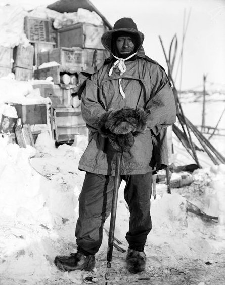 Edgar Evans (1876-1912), member of the Terra Nova Expedition (1910-1913)